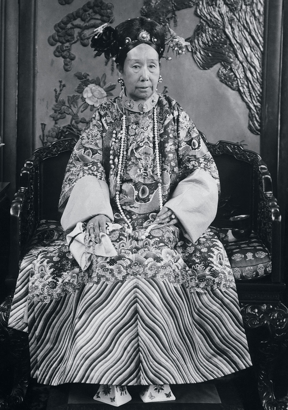 The Qing Dynasty Empress Dowager Cixi of China (1835-1908)